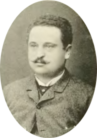 Bulgarian Primer Minister Konstantin Stoilov, before 1888.